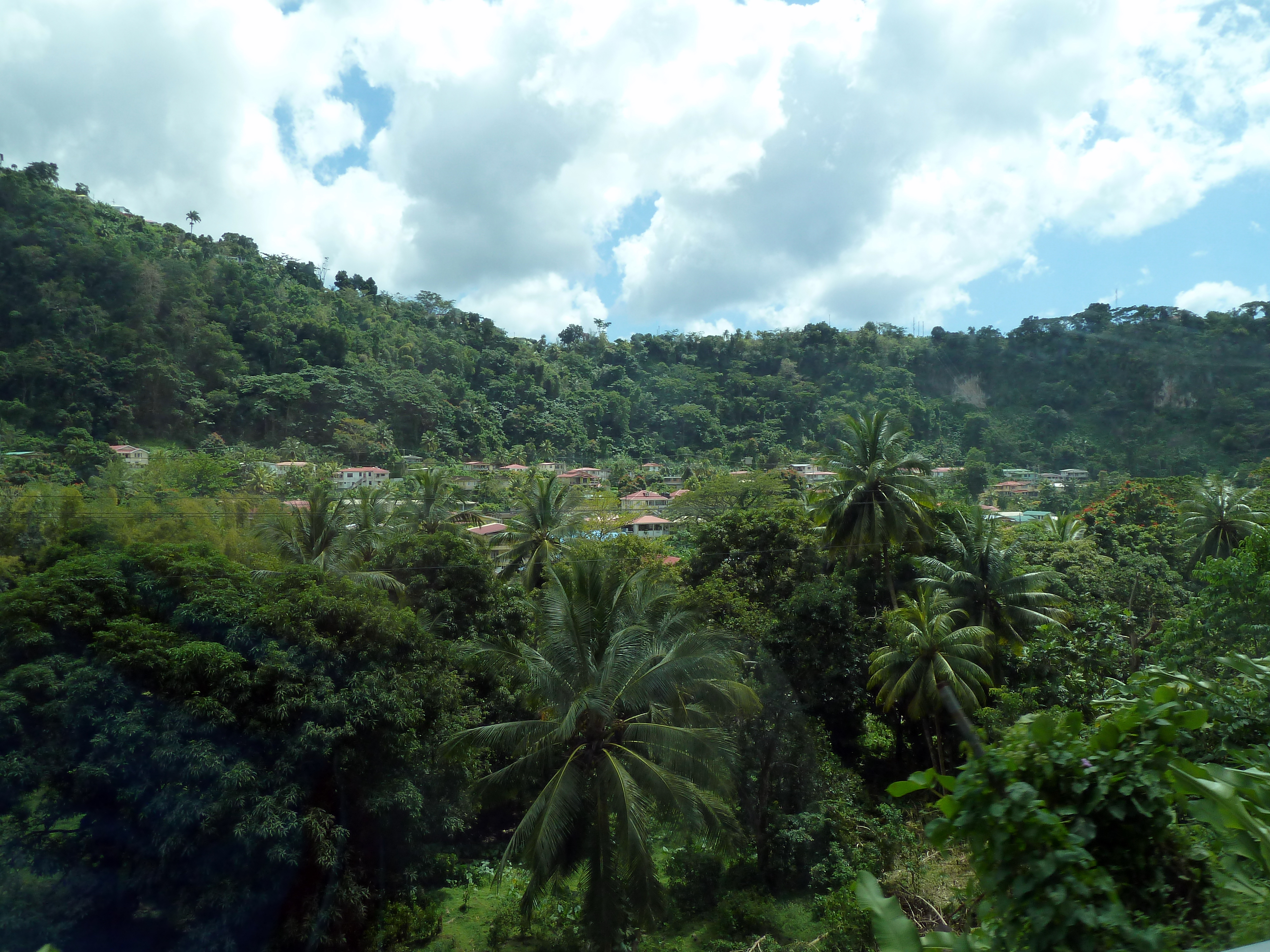 Dominica, Karibik - Laudat - Wotten Waven – Fond Cani